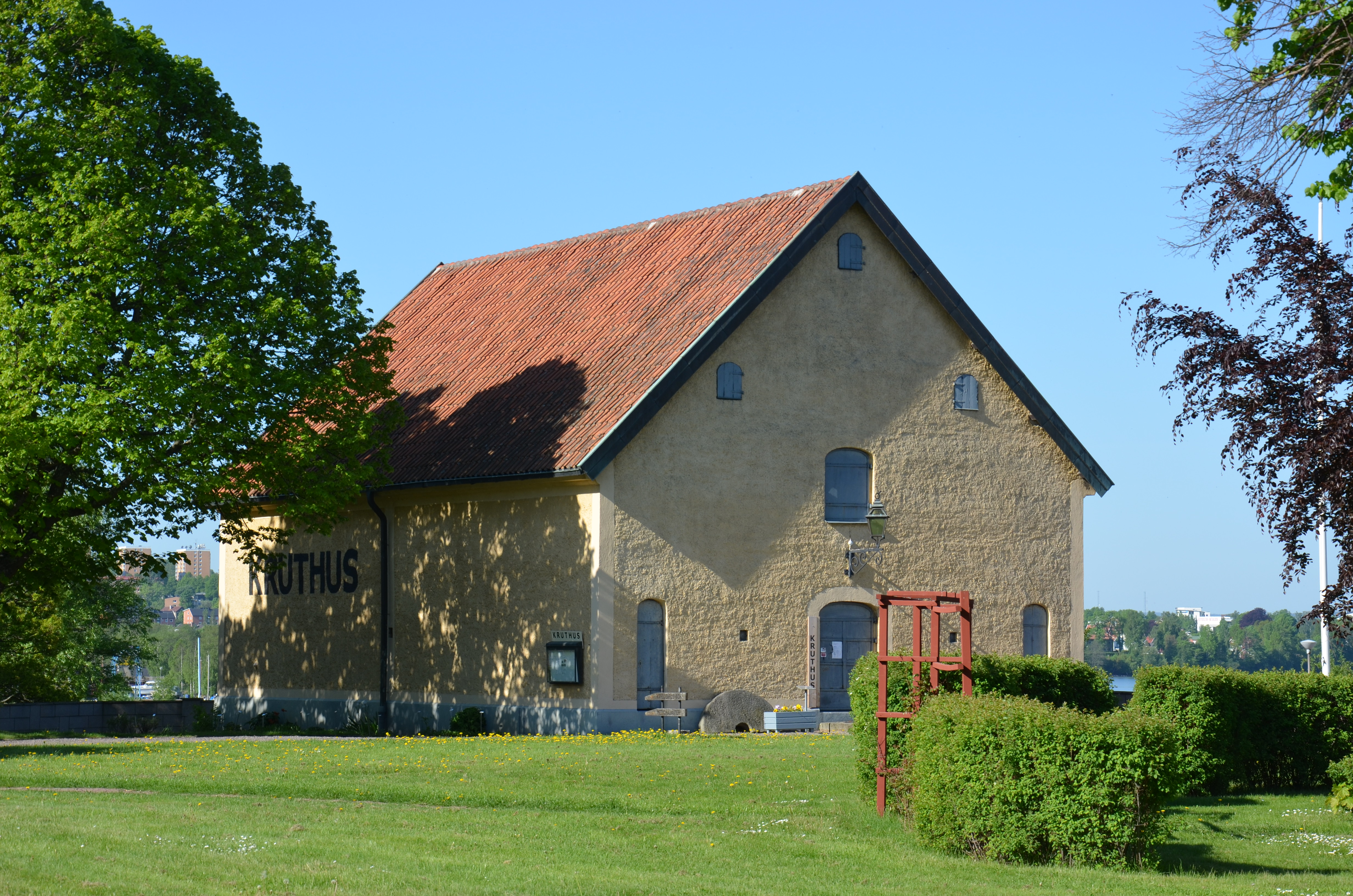 Huskvarna Town Museum